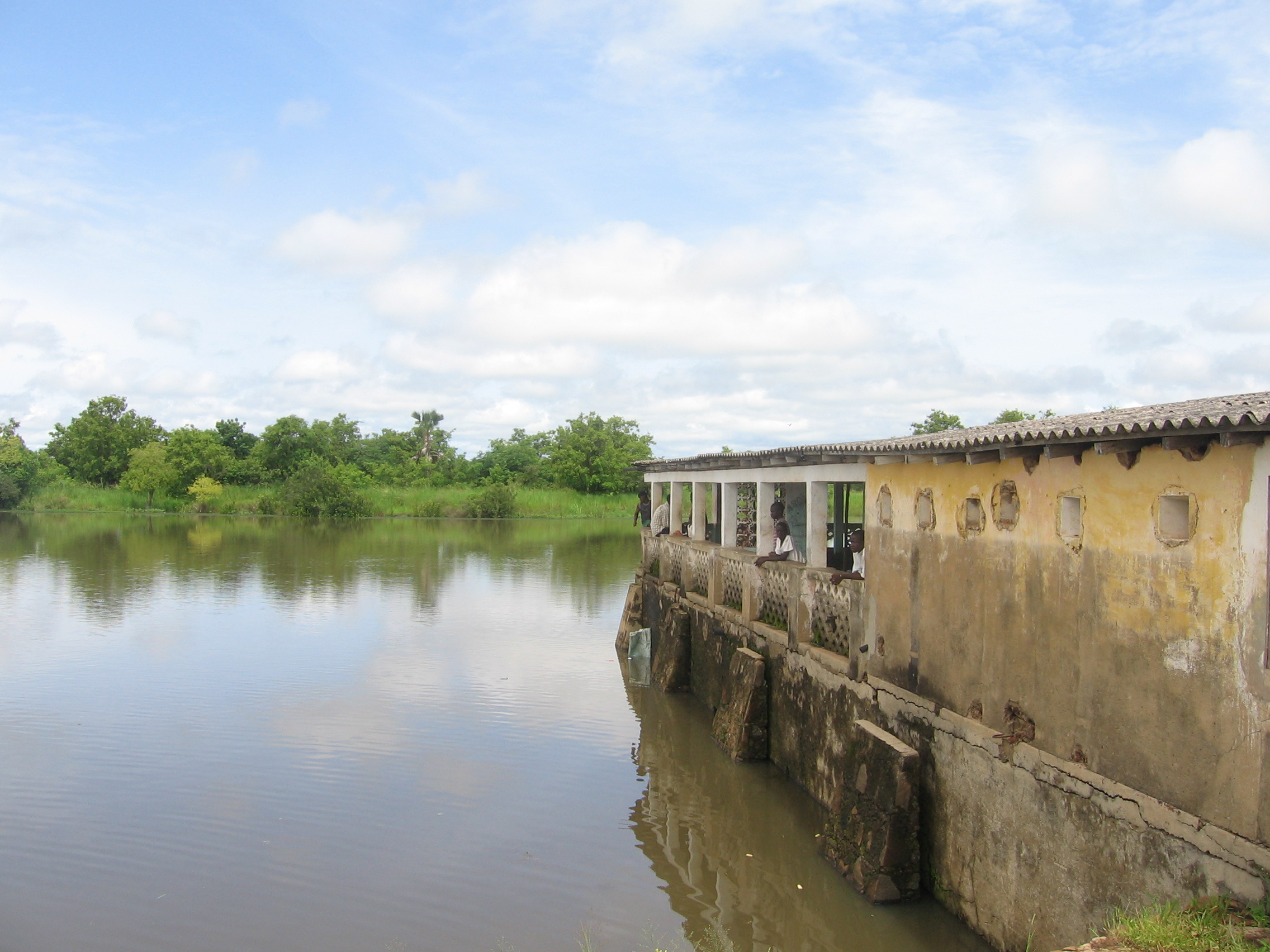 Rio Geba, Bafatá.